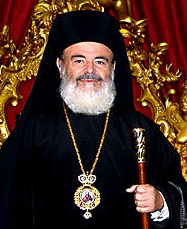 Archbishop Christodoulos of Athens, 1939-2008.